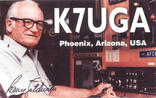 QSL card of a very influntial ham. senator Barry Goldwater, K7UGA.